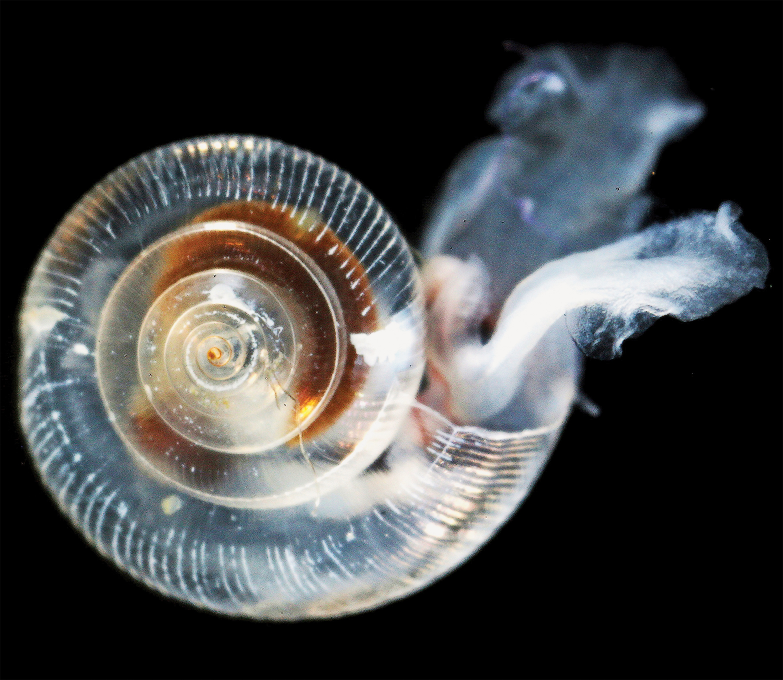 Unhealthy pteropod showing effects of ocean acidification including ragged, dissolving shell ridges on upper surface, a cloudy shell in lower right quadrant , and severe abrasions and weak spots at 6:30 position on lower whorl of shell. Image ID: fis01026, NOAA's Fisheries Collection Credit: NOAA News April 30 2014